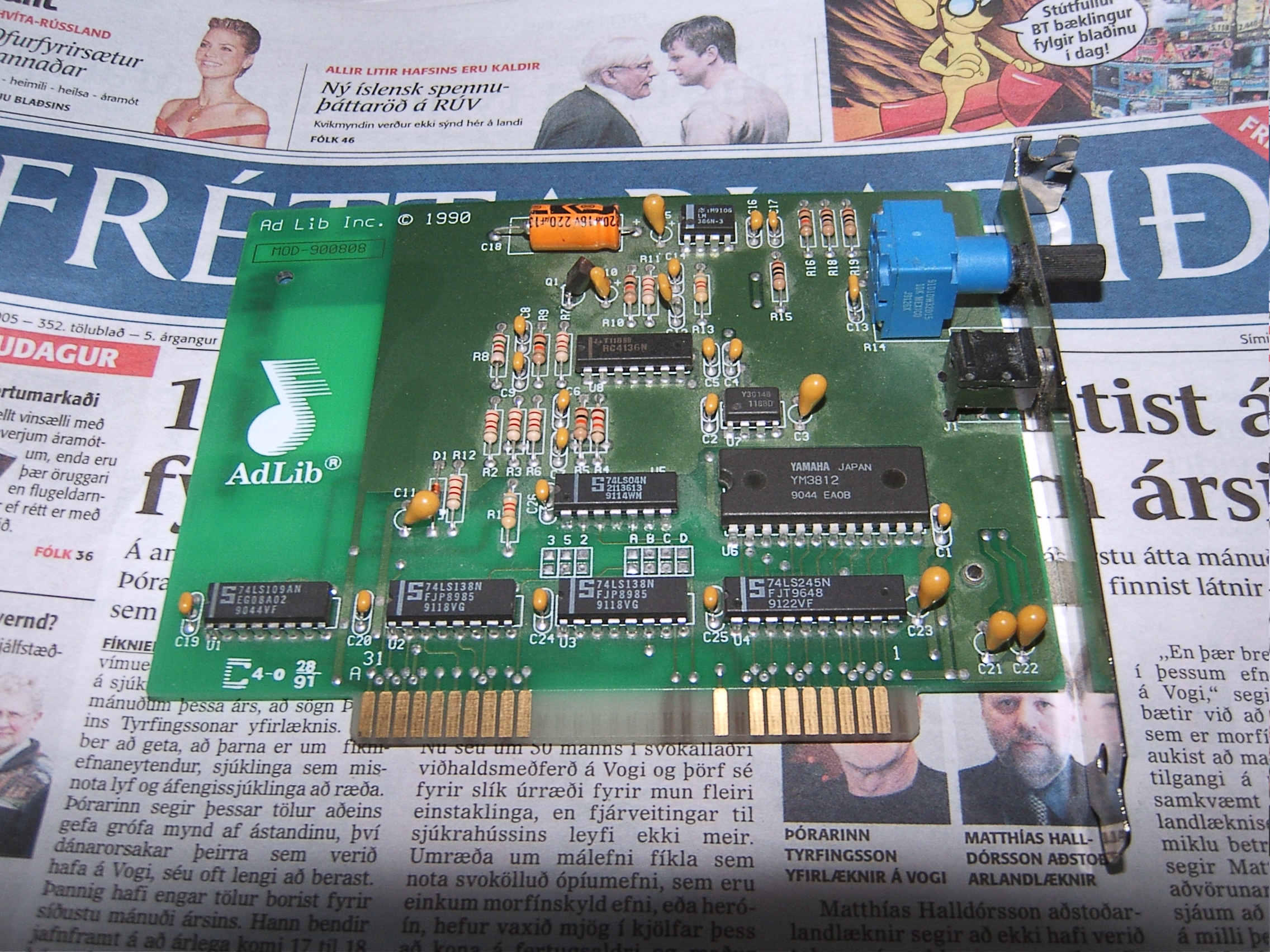 This is a picture of an AdLib sound card.